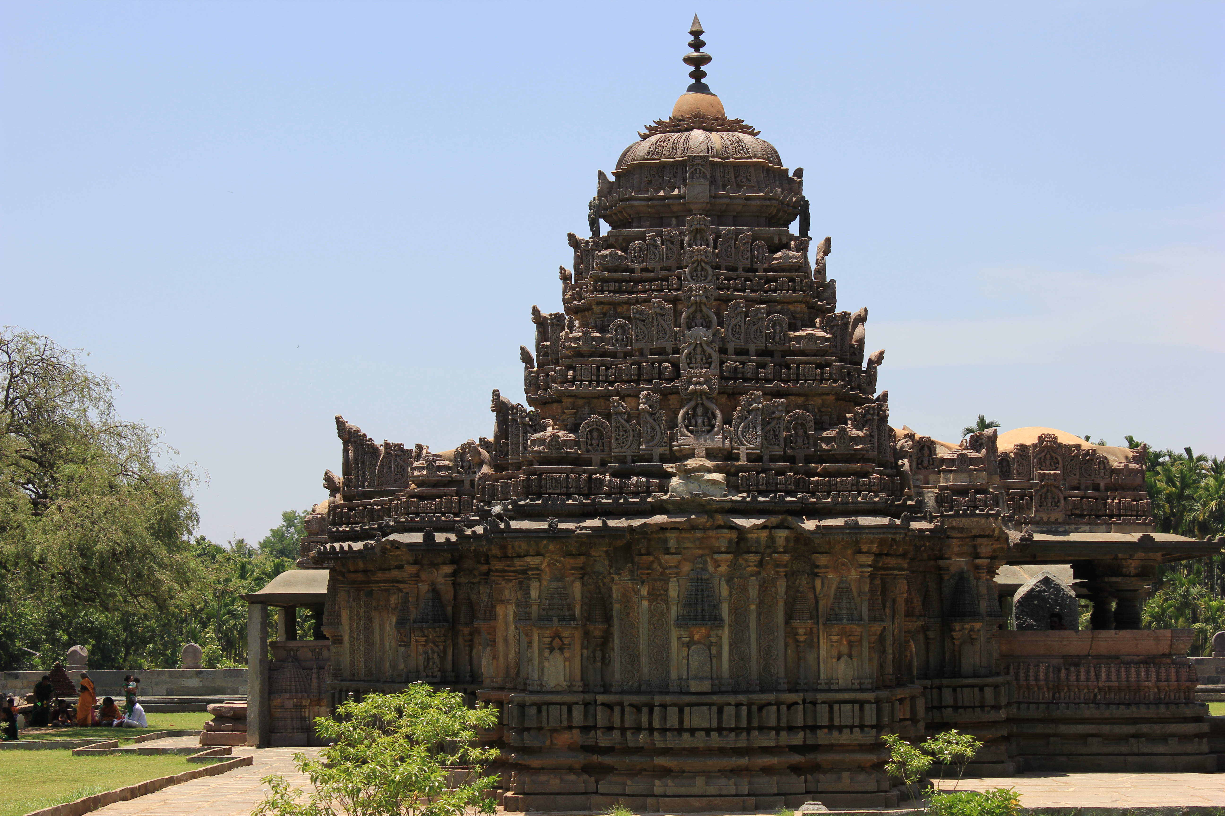 This photograph was taken by self (Dinesh Kannambadi) at the Amrutesvara temple (also spelt Amruteshvara or Amruteshwara) in Amruthapura, Chikkamagaluru district, Karnataka state, India. The temple was built in 1196 C.E. during the rule of the Hoysala King Veera Ballala II.